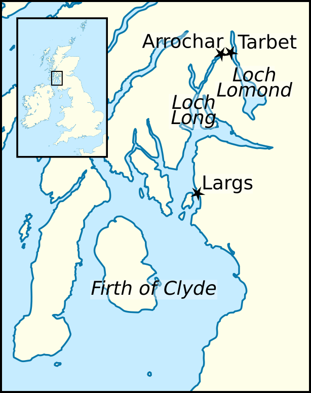 Map created for the Wikipedia article concerning Ailéan mac Ruaidhrí (died ×1296).